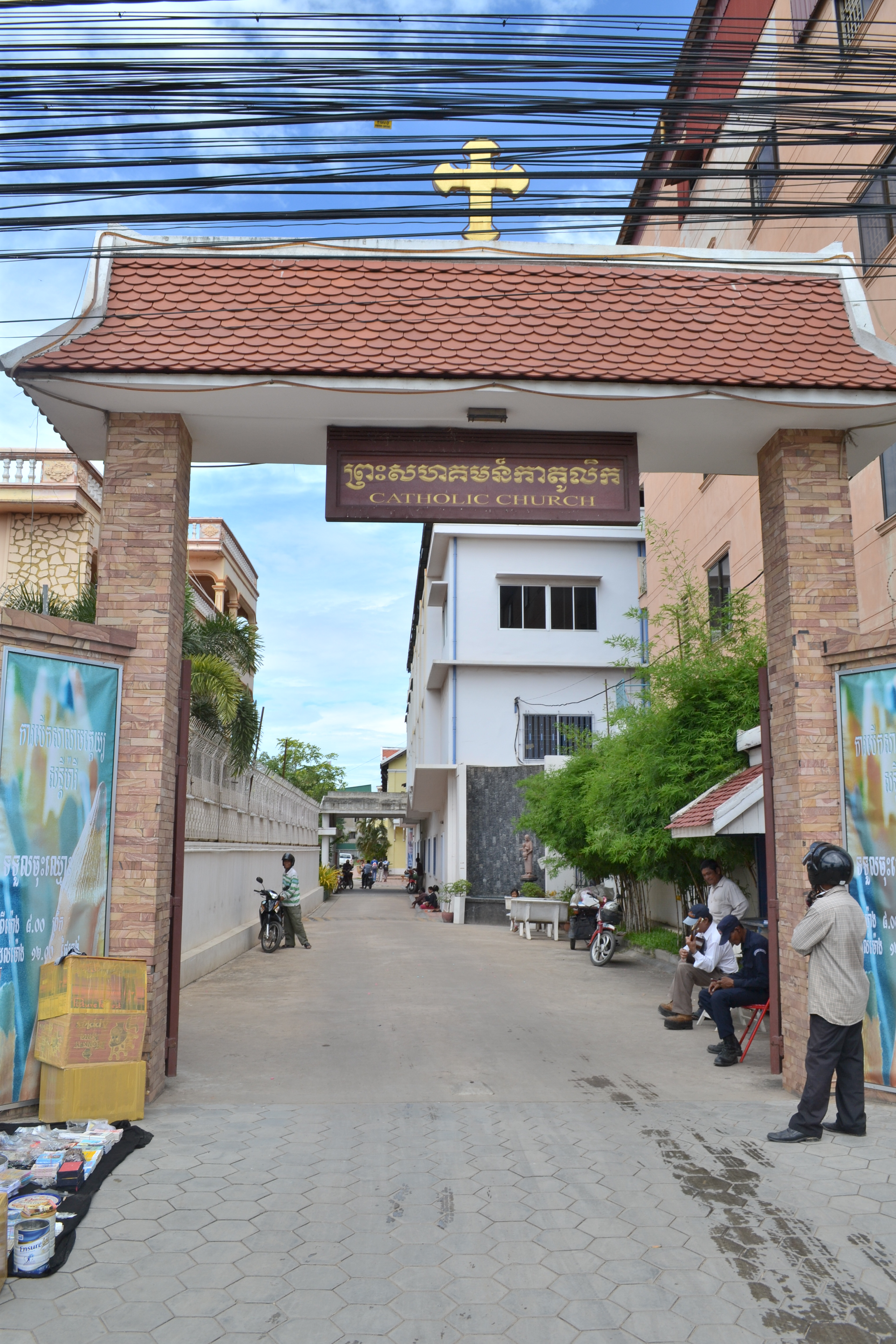 Entrance